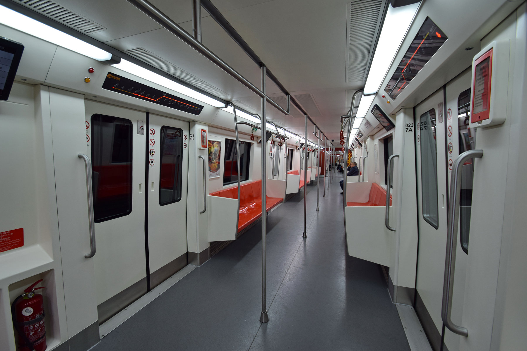 Interior of Harbin Metro Line 1 Train